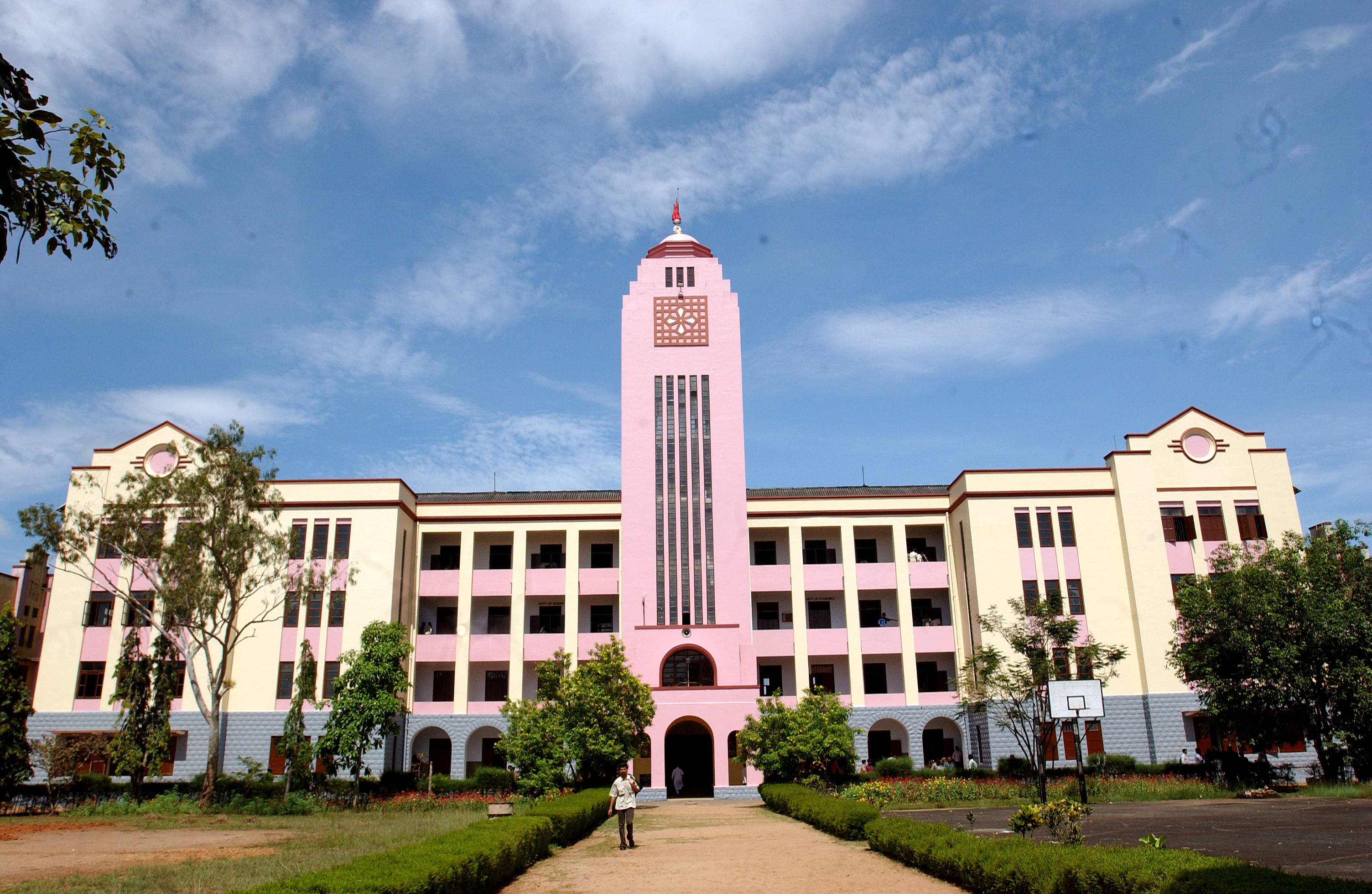 MCC